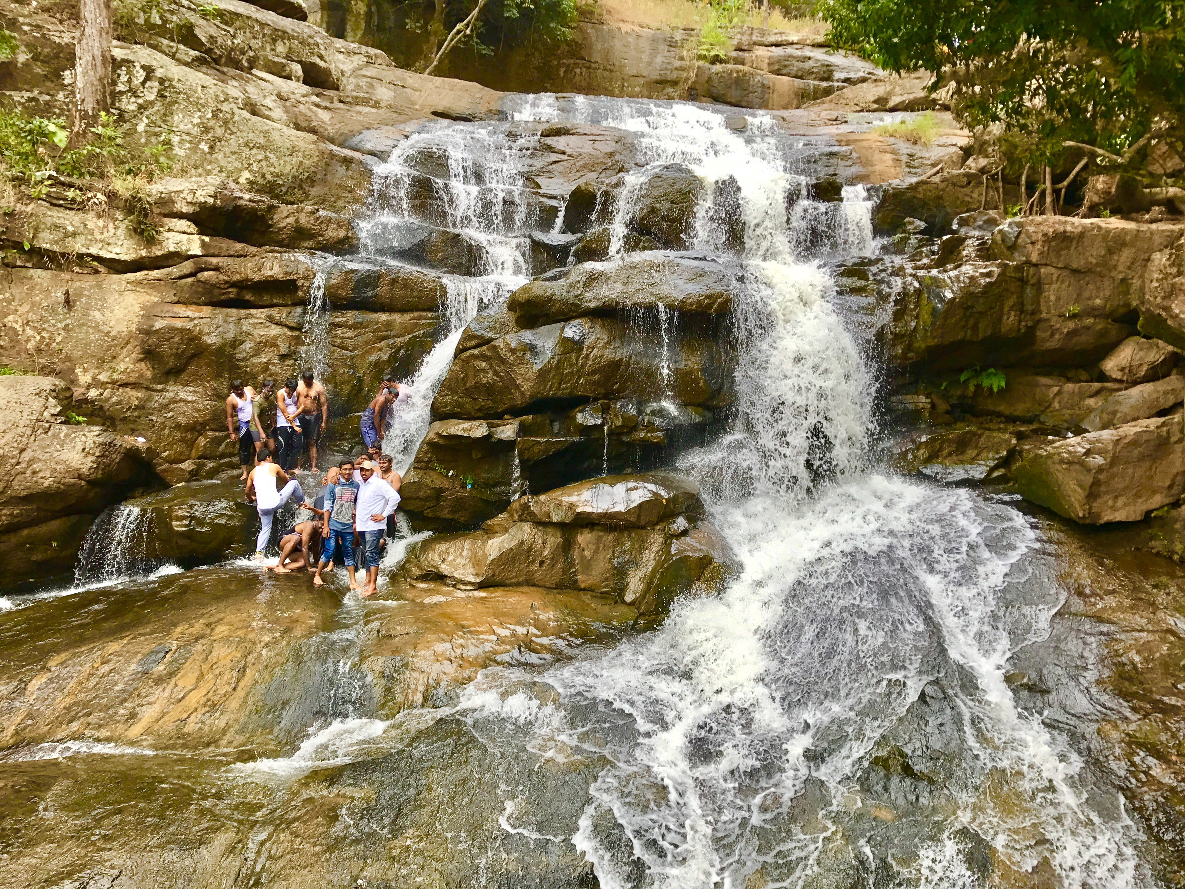 Chintapalle Waterfalls near Araku